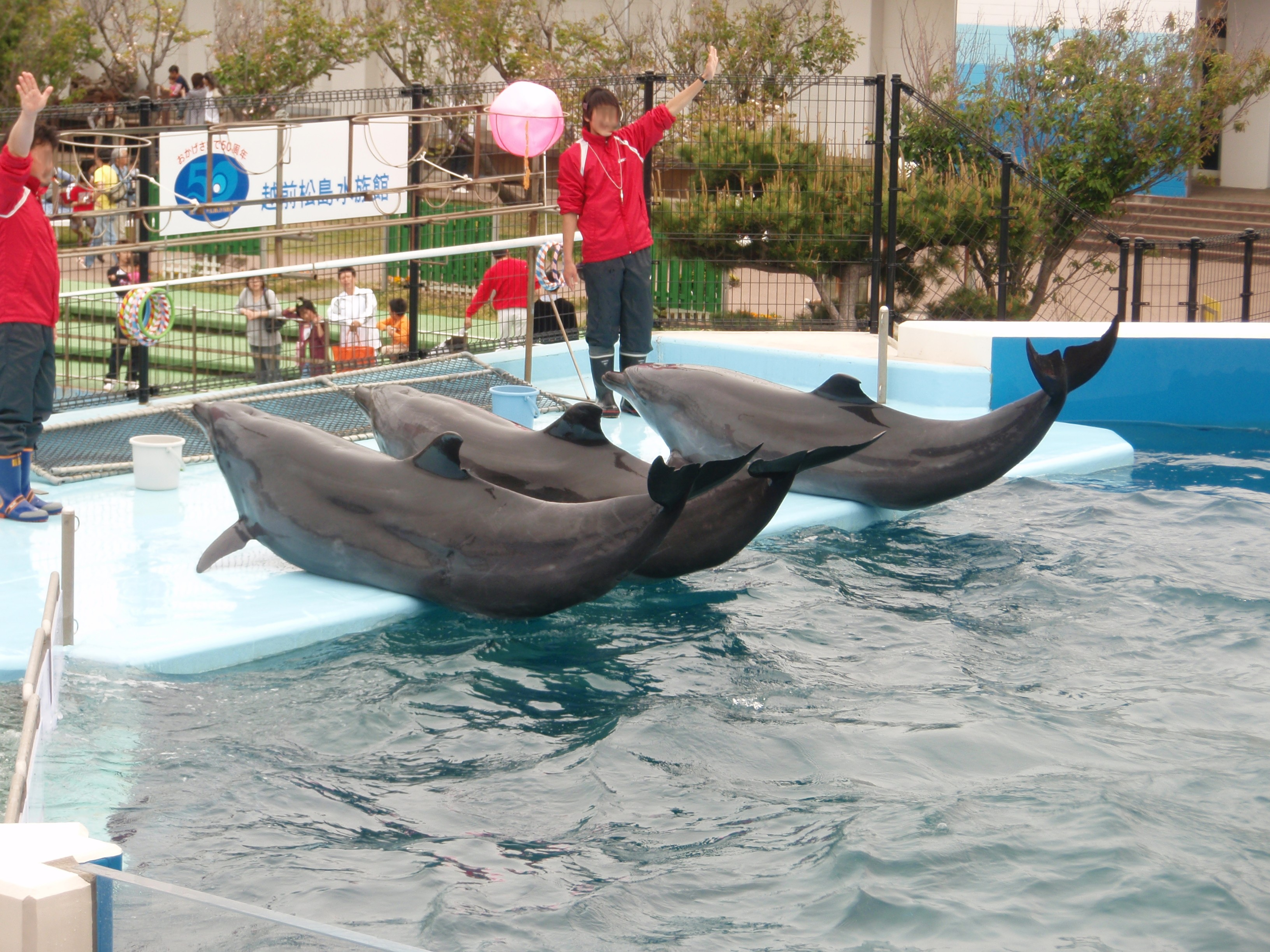 a show of Bottlenose Dolphins in Echizen Matsushima Aquarium, Japan